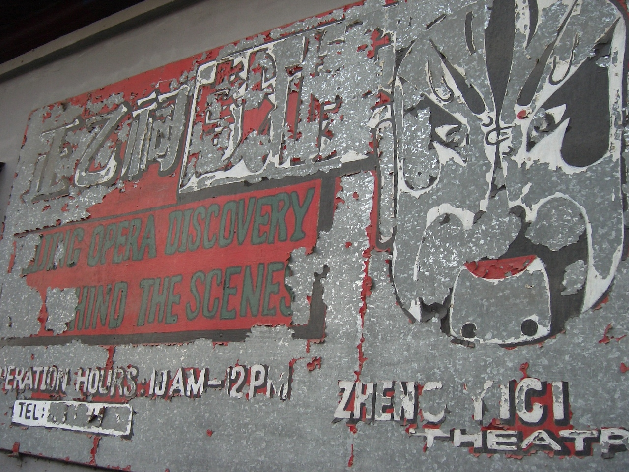 A faded sign advertising Chinese theatre, in one of the many hutongs (alleys) in Beijing, China.